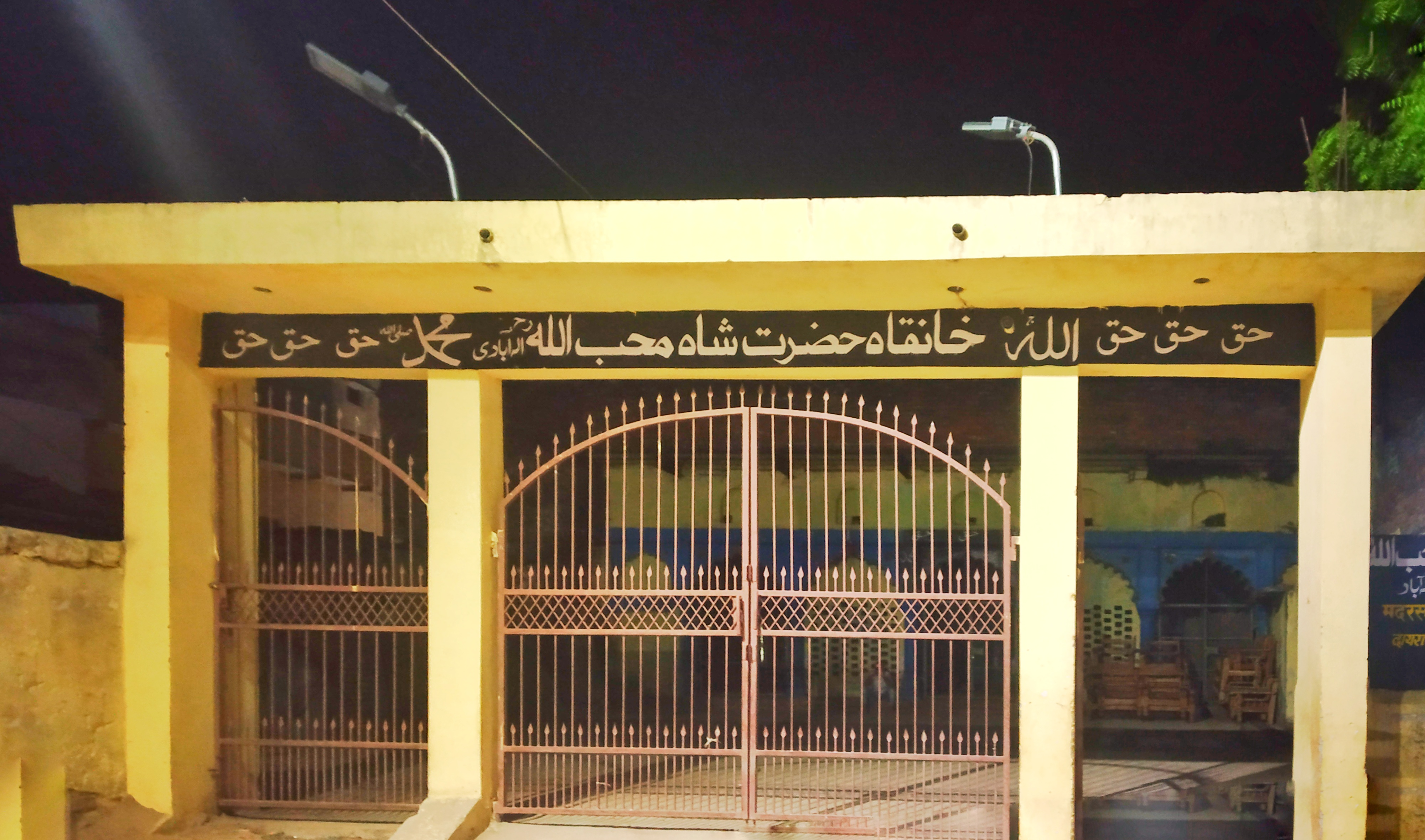 Khanqah Hazrat Shah Muhibbullah Allahabadi Daira Shah Muhibbullah Bahadurganj Allahabad